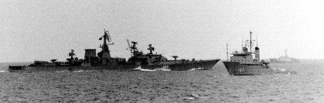 The fleet tug USNS Narragansett is shadowed by the Soviet Kara class guided missile cruiser Petropavlovsk during salvage operations of Korean Air Lines Flight 007